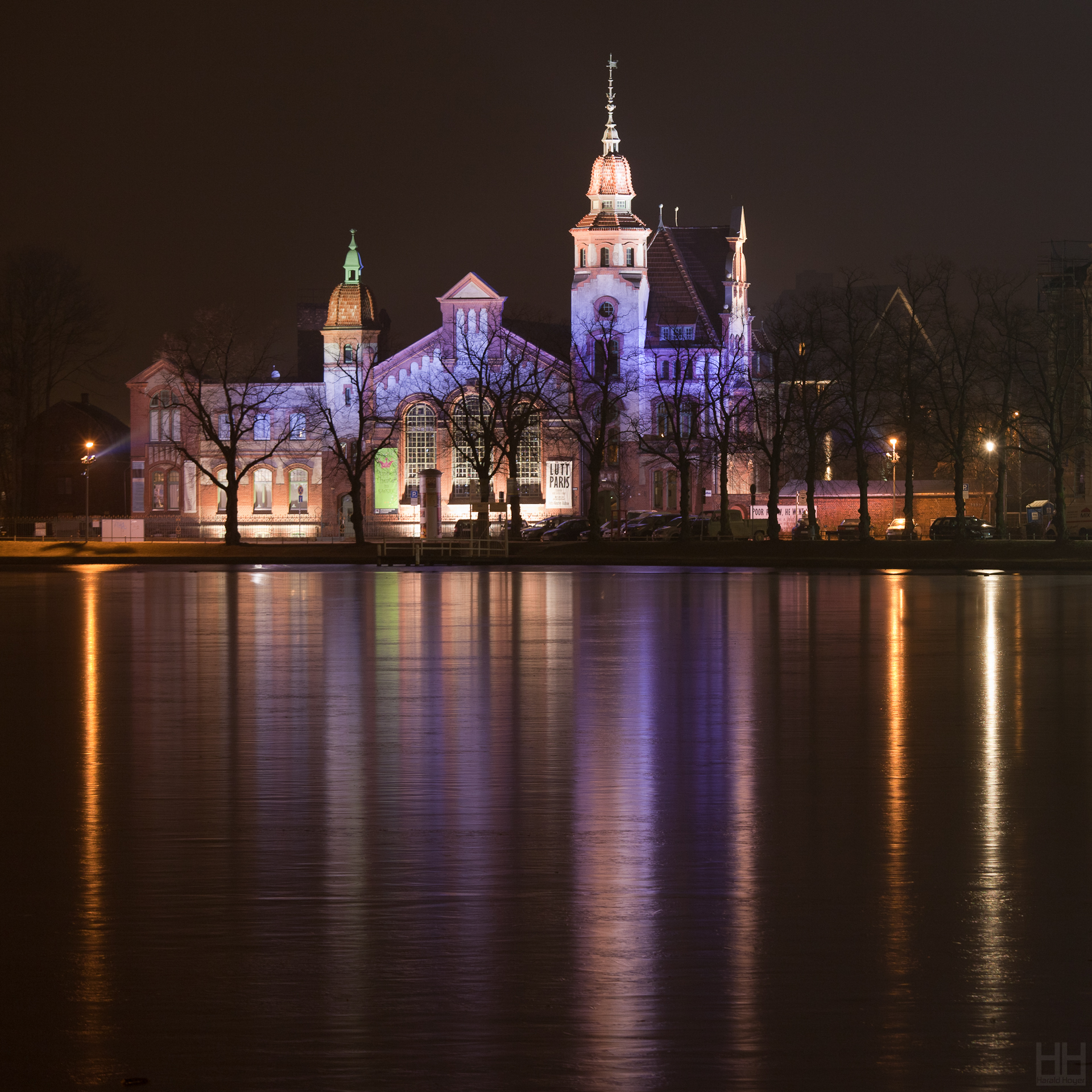 former and first power plant in Schwerin, Mecklenburg-Vorpommern, Germany